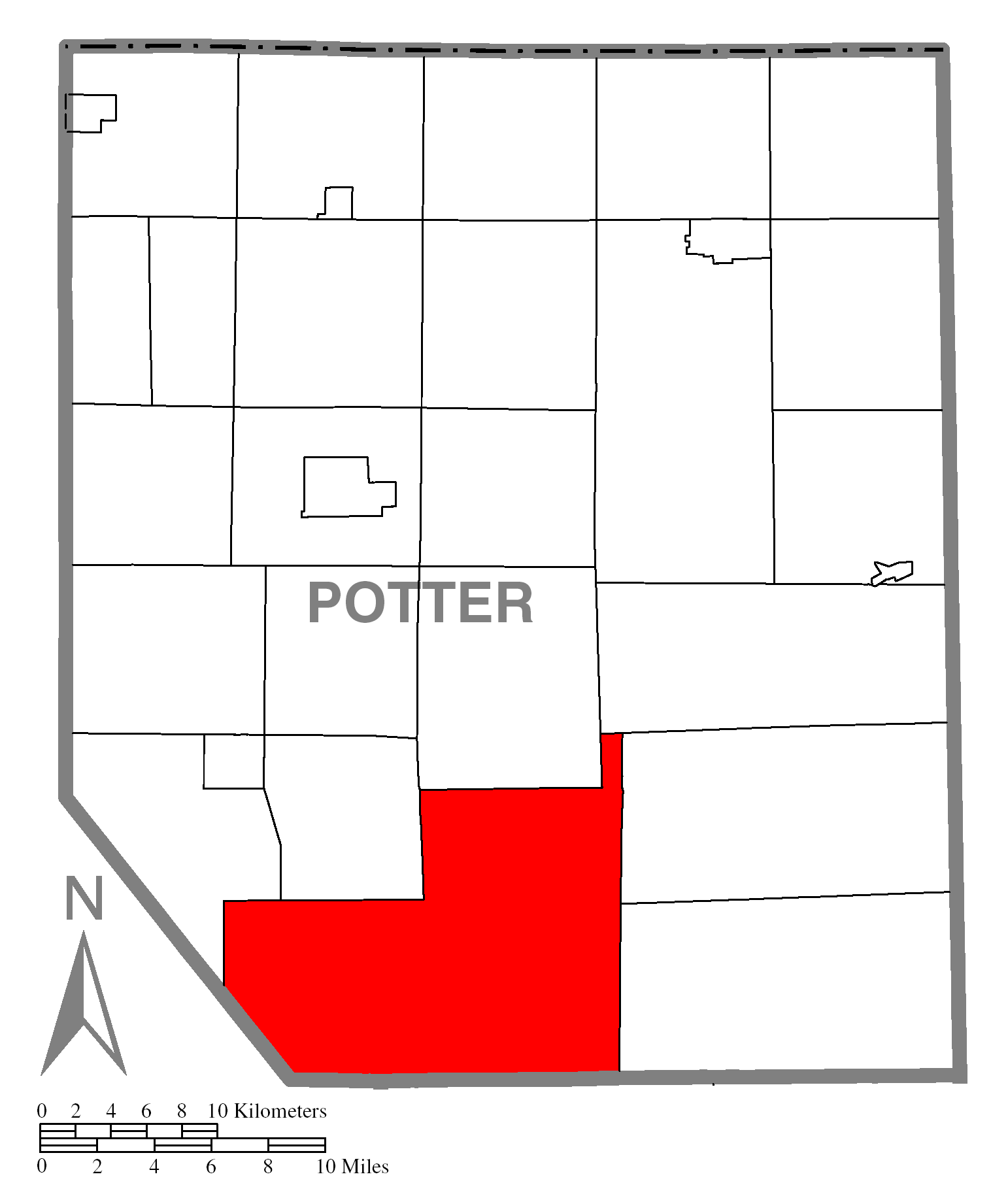 A map of Potter County showing Wharton Township, Pennsylvania (alternate) highlighted on the map.